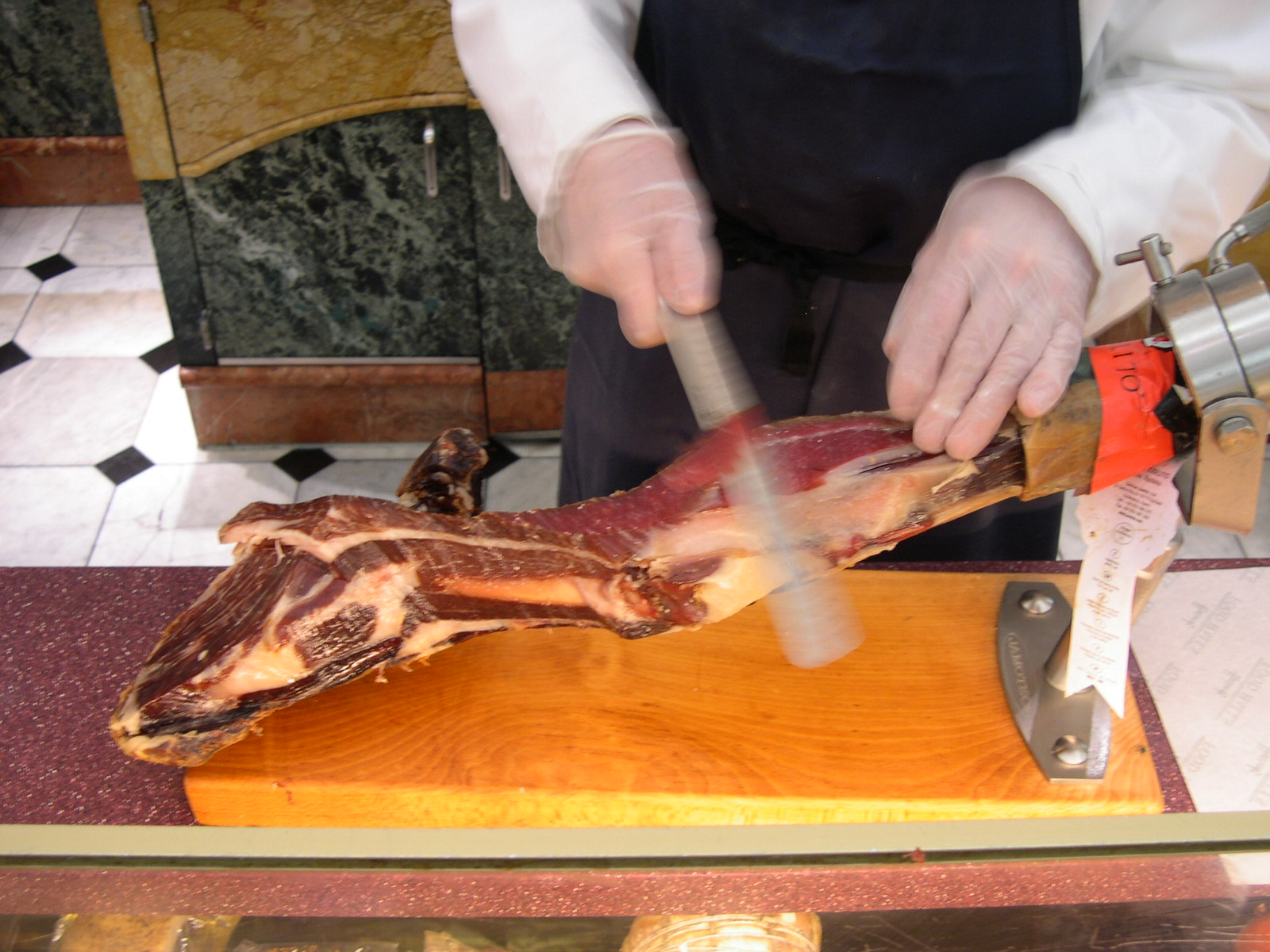 Leg of jamon iberico de bellota (Joselita) sold at Harrods, London.